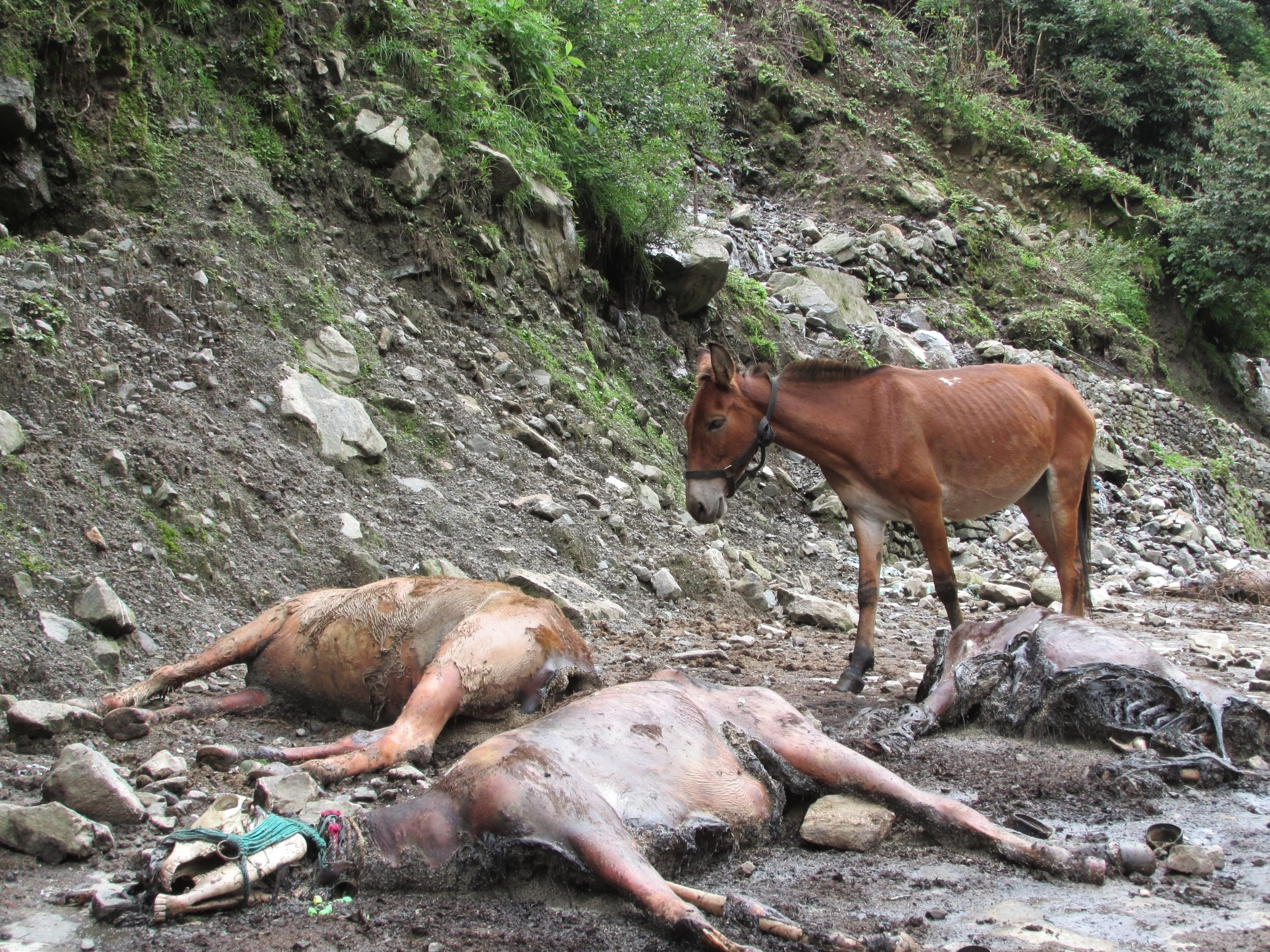 Even after stranded people had been rescued, the authorities left thousands of animals to fend for themselves on isolated pockets in the mountains surrounded by deadly landslides or treacherous currents. These animals were raised by humans and did not know how to fend for themselves once the disaster struck. This picture was taken many days after the event, just showing how people had left these animals without any hope. Mules helped carry construction material and supplies to these regions and once the calamity stuck we just abandoned them. Locals helped People for Animals to rescue stranded mules.